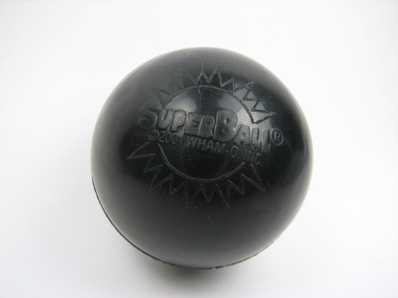 This is a brand-name 45mm Super Ball by Wham-O.